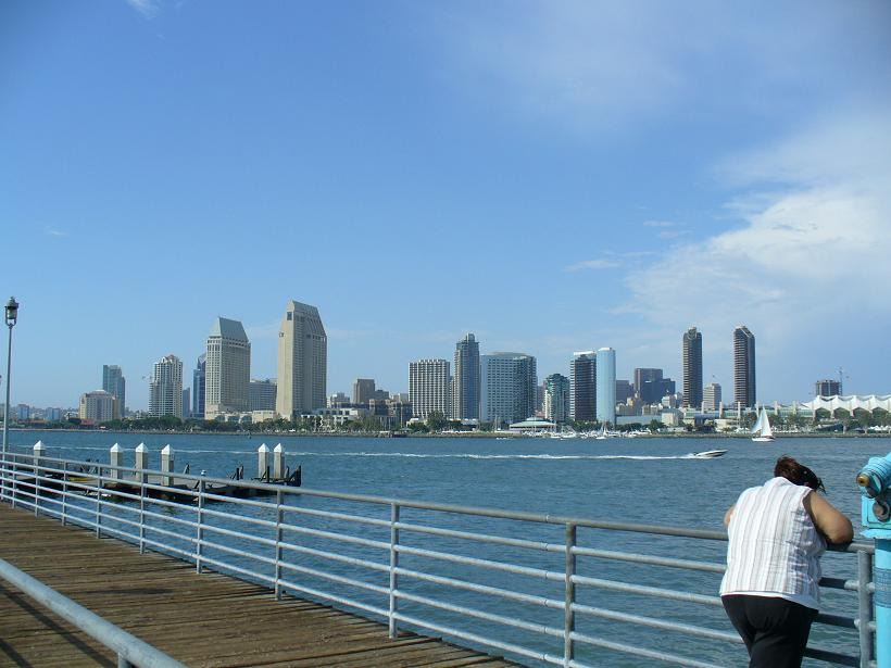 Downtown San Diego from Coronado Peninsula